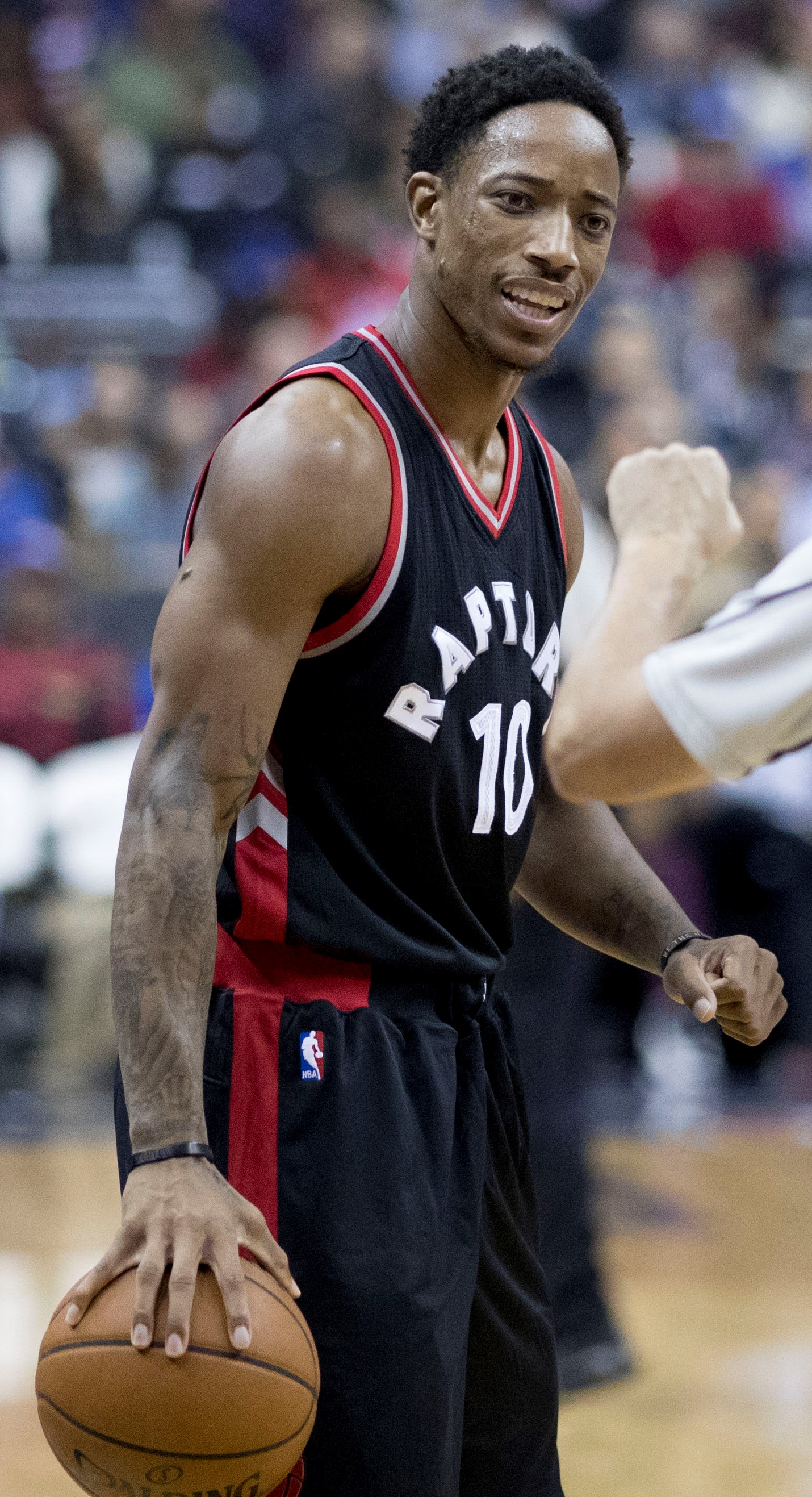 DeMar DeRozan of the Toronto Raptors during a game against the Washington Wizards on November 2, 2016 at Verizon Center in Washington, DC.